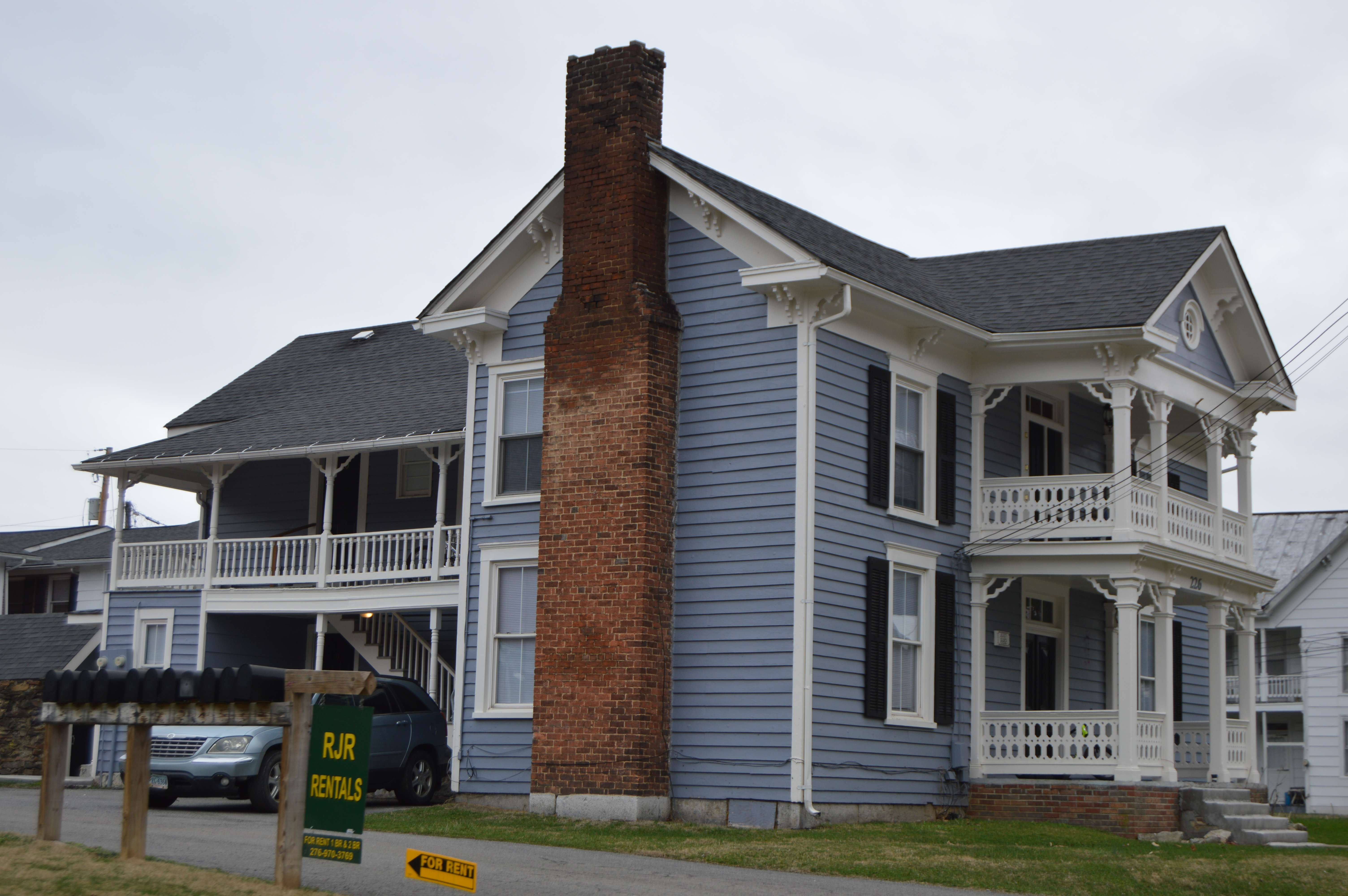 Eastern side and front of the Ratliffe House, located on the southeastern corner of the intersection of Old Kentucky Turnpike and Birch Lane in Cedar Bluff, Virginia, United States. It is part of the Old Kentucky Turnpike Historic District, a historic district that is listed on the National Register of Historic Places.